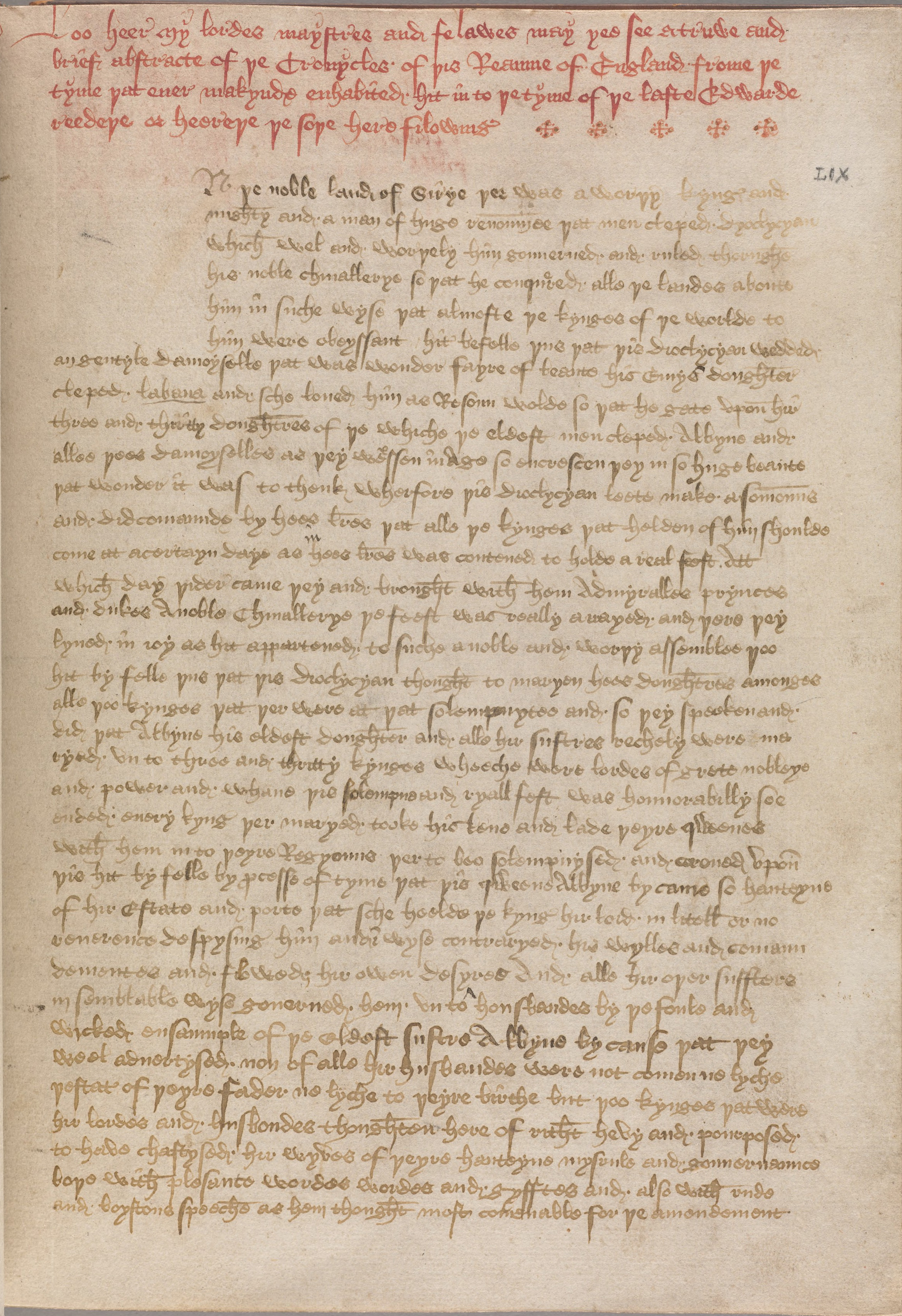 Harvard University, Houghton Library, MS Eng 530. John Shirley - Chronicles of England (acaudal) (ff. 59-211v)